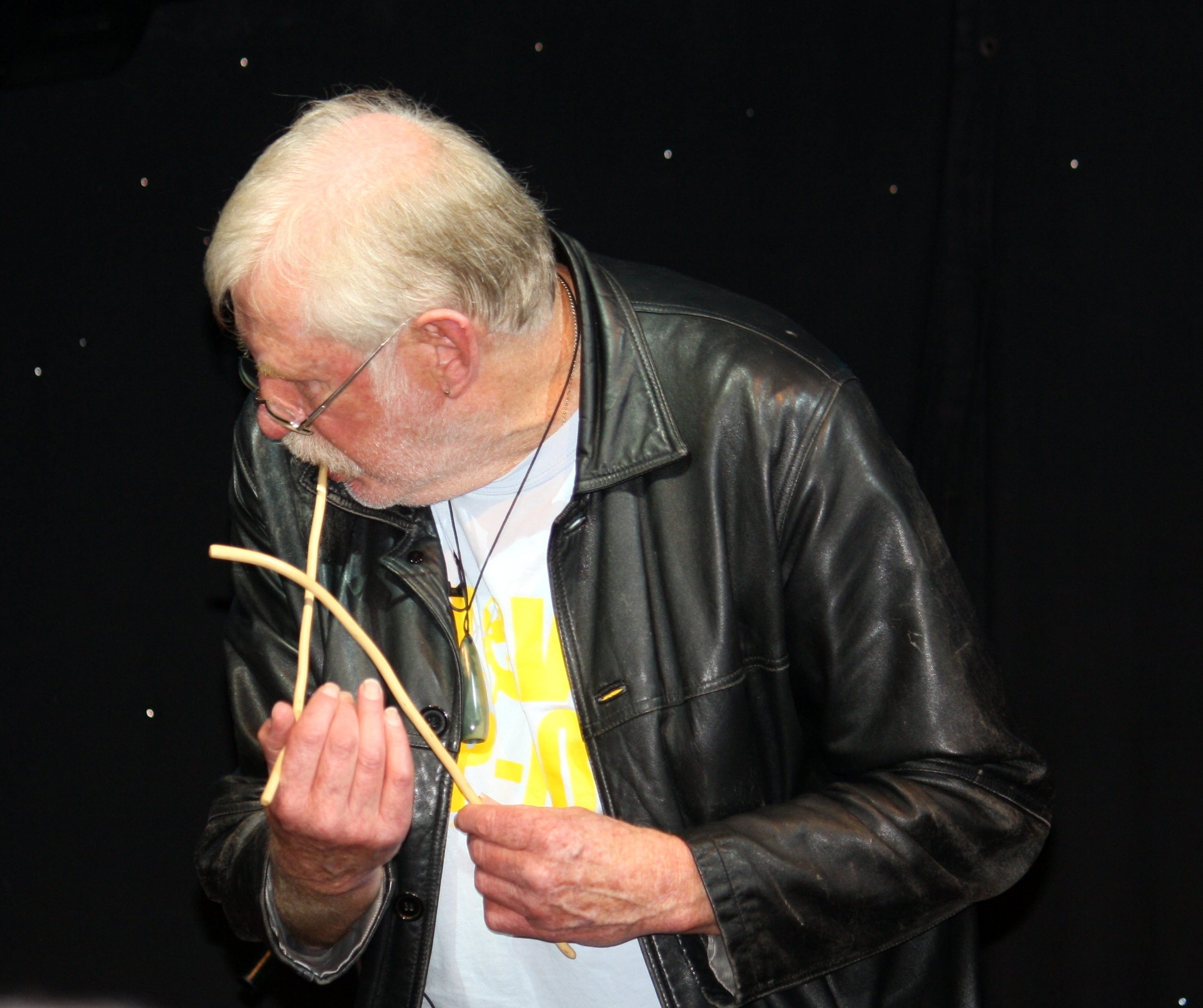 Richard Nunns in 2011, demonstrating pākuru (traditional Māori tapping sticks). One rod is held between the teeth and tapped rhythmically using the other rod. The mouth acts as a resonator.